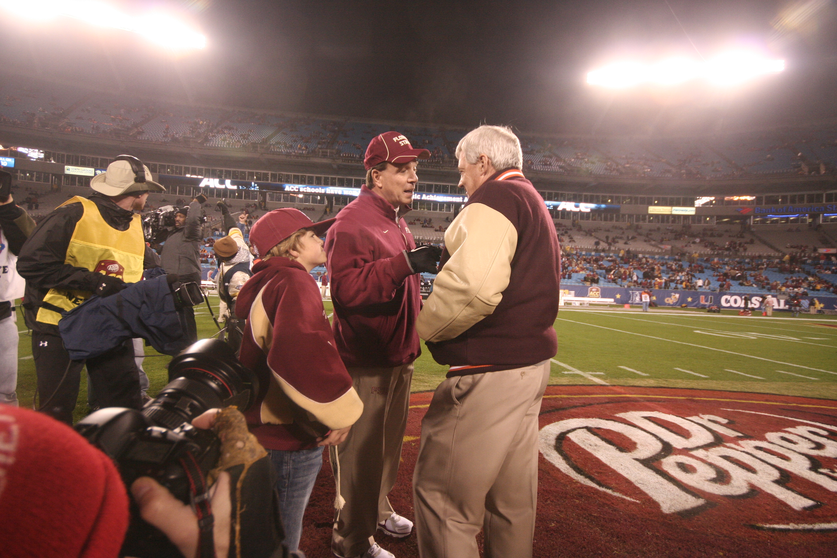 ACC Football Championship vs. Florida State, 2010